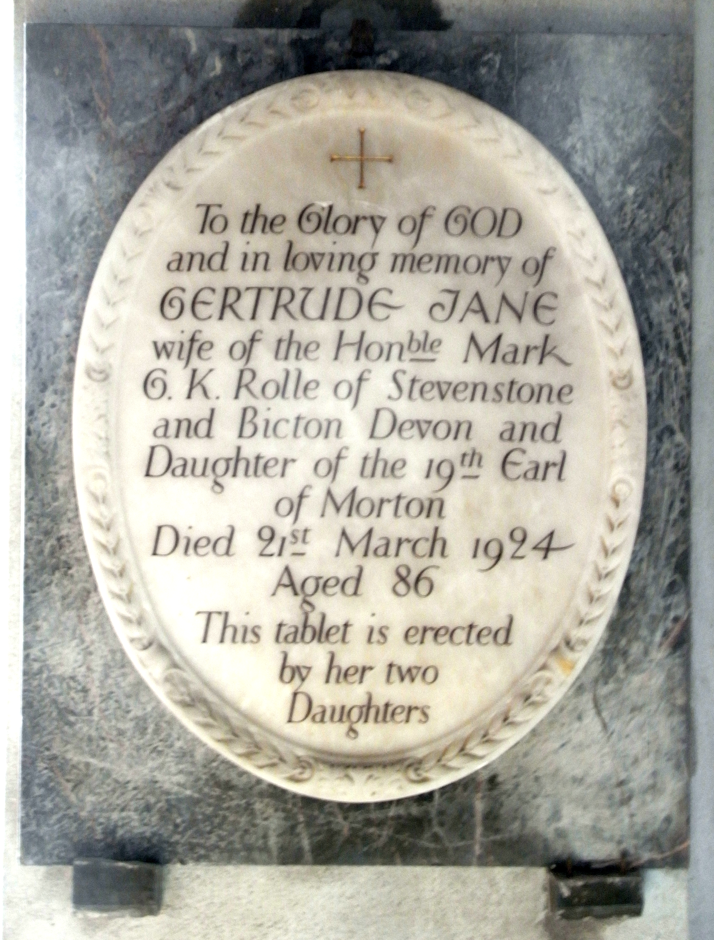 Mural monument in St Giles in the Wood parish church: "To the Glory of God and in loving memory of Gertrude Jane wife of the Hon.ble Mark G. K. Rolle of Stevenstone and Bicton Devon and daughter of the 19th Earl of Morton. Died 21st March 1924 aged 86. This tablet is erected by her two daughters".